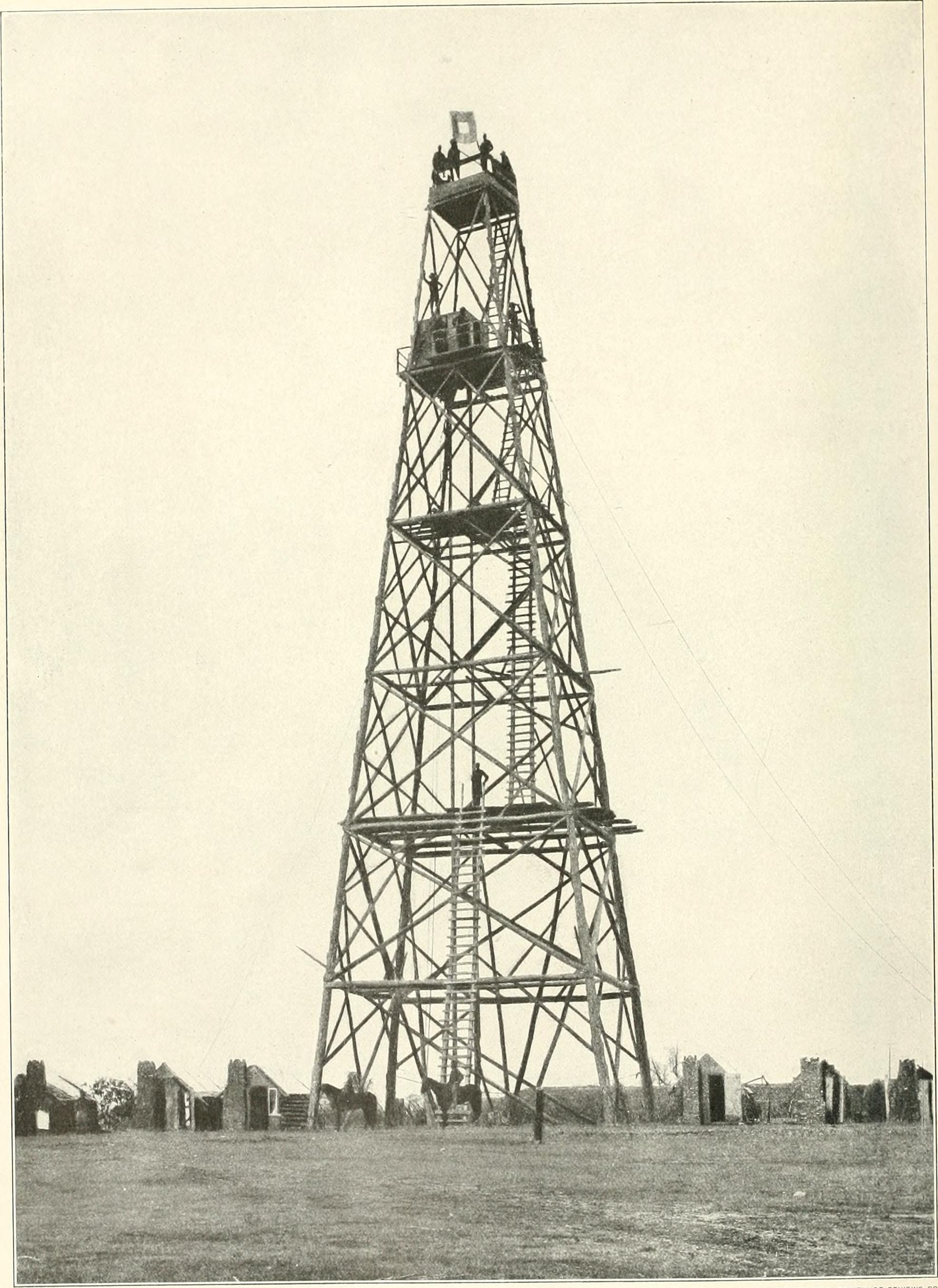 Title: The photographic history of the Civil War : thousands of scenes photographed 1861-65, with text by many special authorities Year: 1911 (1910s) Authors: Miller, Francis Trevelyan, 1877-1959 Lanier, Robert S. (Robert Sampson), 1880- Subjects: United States -- History Civil War, 1861-1865 Pictorial works United States -- History Civil War, 1861-1865 Publisher: New York : Review of Reviews Co. Text Appearing Before Image: COPYRIGHT, 1911, HEVIEW OF REVIEWS CO CHIEF SIGNAL OFFICER A. J. MYER, WITH A GROUP OF HIS SUBORDINATES AT RED HILL black flag was used. Against a variegcitcd background the red color was seen farther. In every importantcampaign and on every bloody ground, these men risked their lives at the forefront of the battle, speedingstirring orders of advance, warnings of impending danger, and sullen admissions of defeat. They were onthe advanced lines of Yorktown, and the saps and trenches at Charleston, Yicksburg, and Port Hudson,near the battle-lines at Chickamauga and Chancellorsville, before the fort-crowned crest of Fredericksburg,amid the frightful carnage of Antietam, on Kenesaw Mountain deciding the fate of Allatoona, in Shermansmarch to the sea, and with Grants victorious army at Appomattox anil Richmond. They signaled toPorter clearing the central Mississippi River, and aided Farragut when forcing the passage of Mobile Bay. Text Appearing After Image: COPYRIGHT, 19 11. REVIEW OF REVIEWS CO.